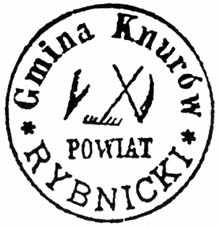 Seal of Knurów Commune, 1922